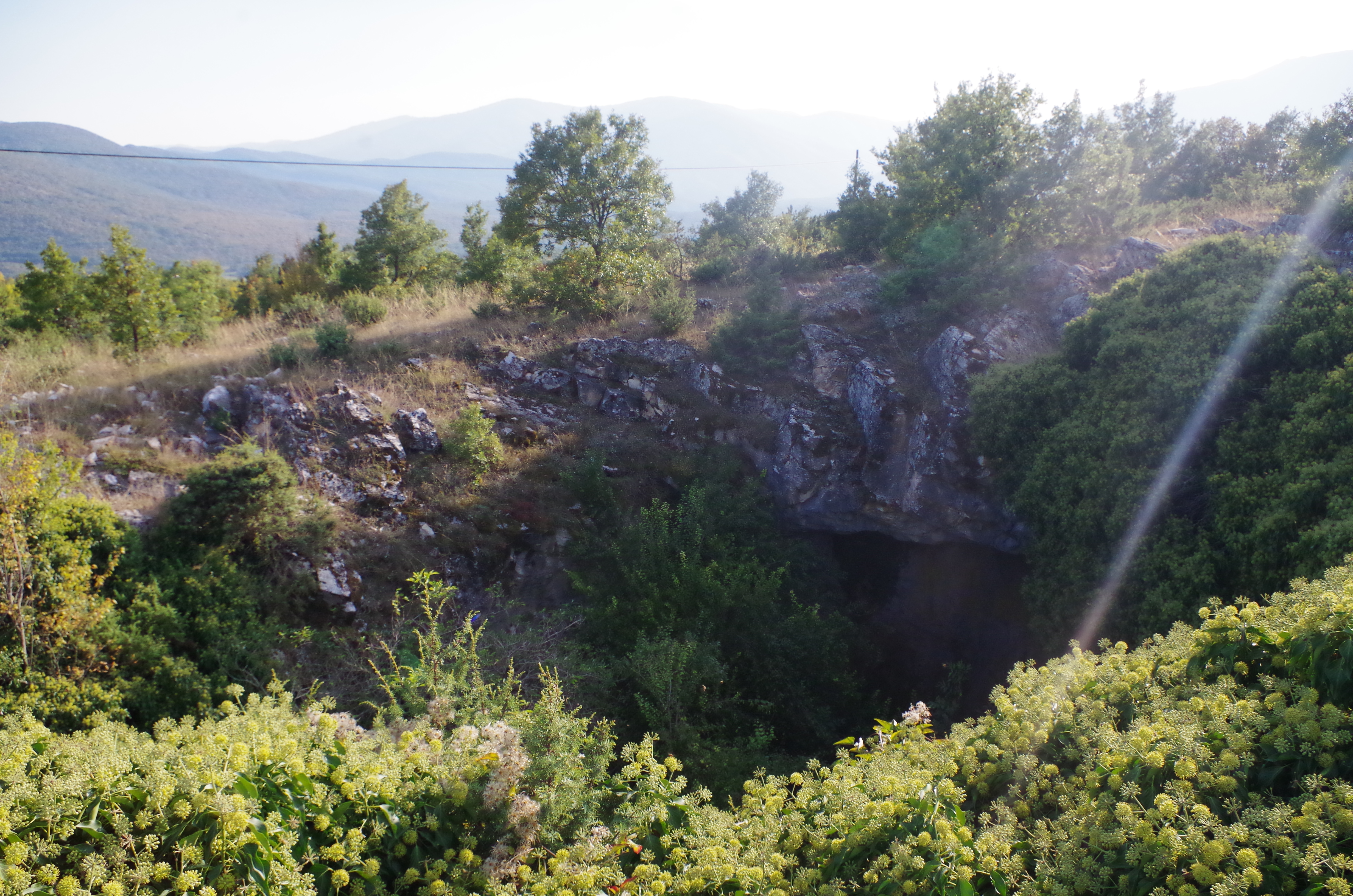 Leandra pit cave near village of Lokvica in Porece region, Macedonia